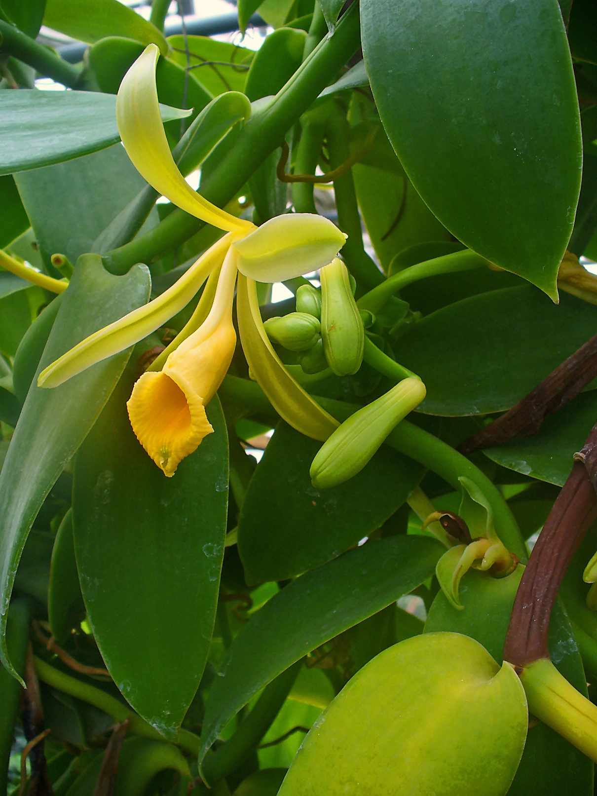 Vanilla pompona, Orchidaceae, flower.